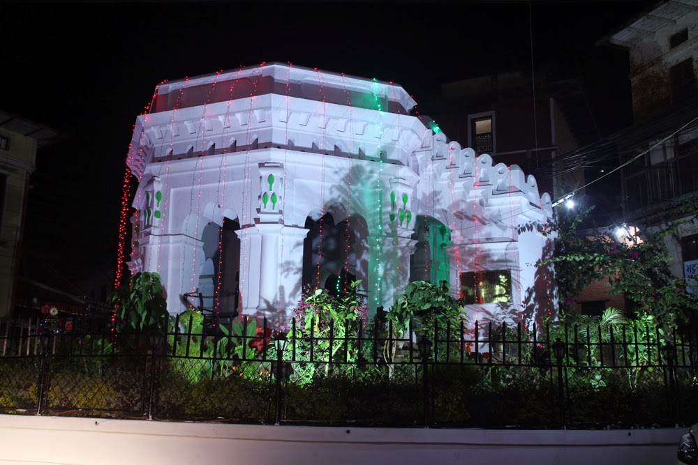 This is the public place situated in the middle of Tansen, Palpa